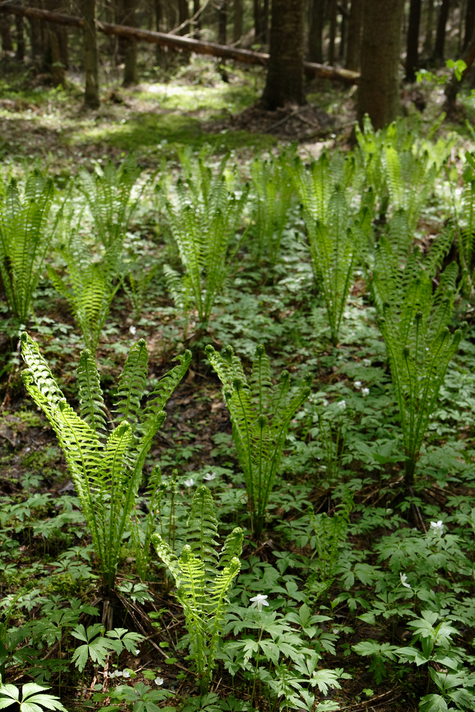 Ostrich Fern (Matteuccia struthiopteris) among Wood Anemones (Anemone nemorosa) Same plant as in the previous picture, in a bit different environment this time.